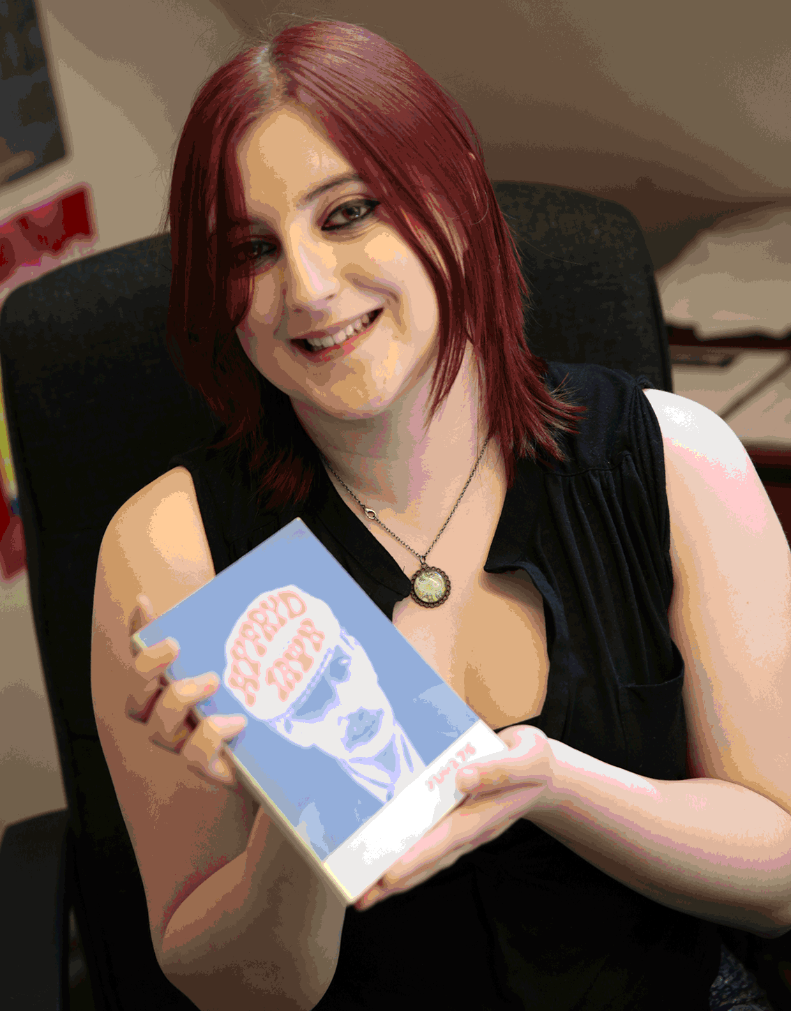 Fflur Arwel, Y Lolfa's marketing manager, showing the company's first book, Hyfryd Iawn